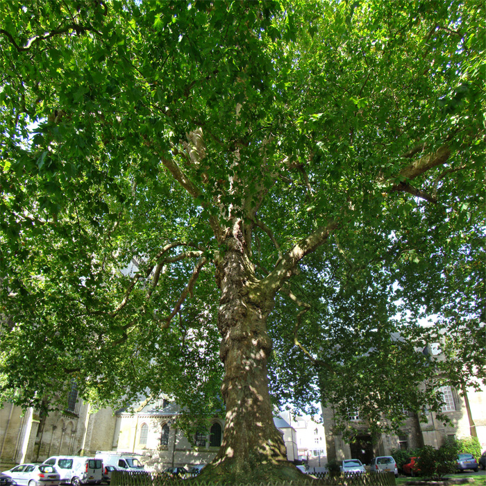 Bayeux, Calvados, Normandie, France. Platanus dating from 1797, named "Arbre de la liberté" (tree of freedom).